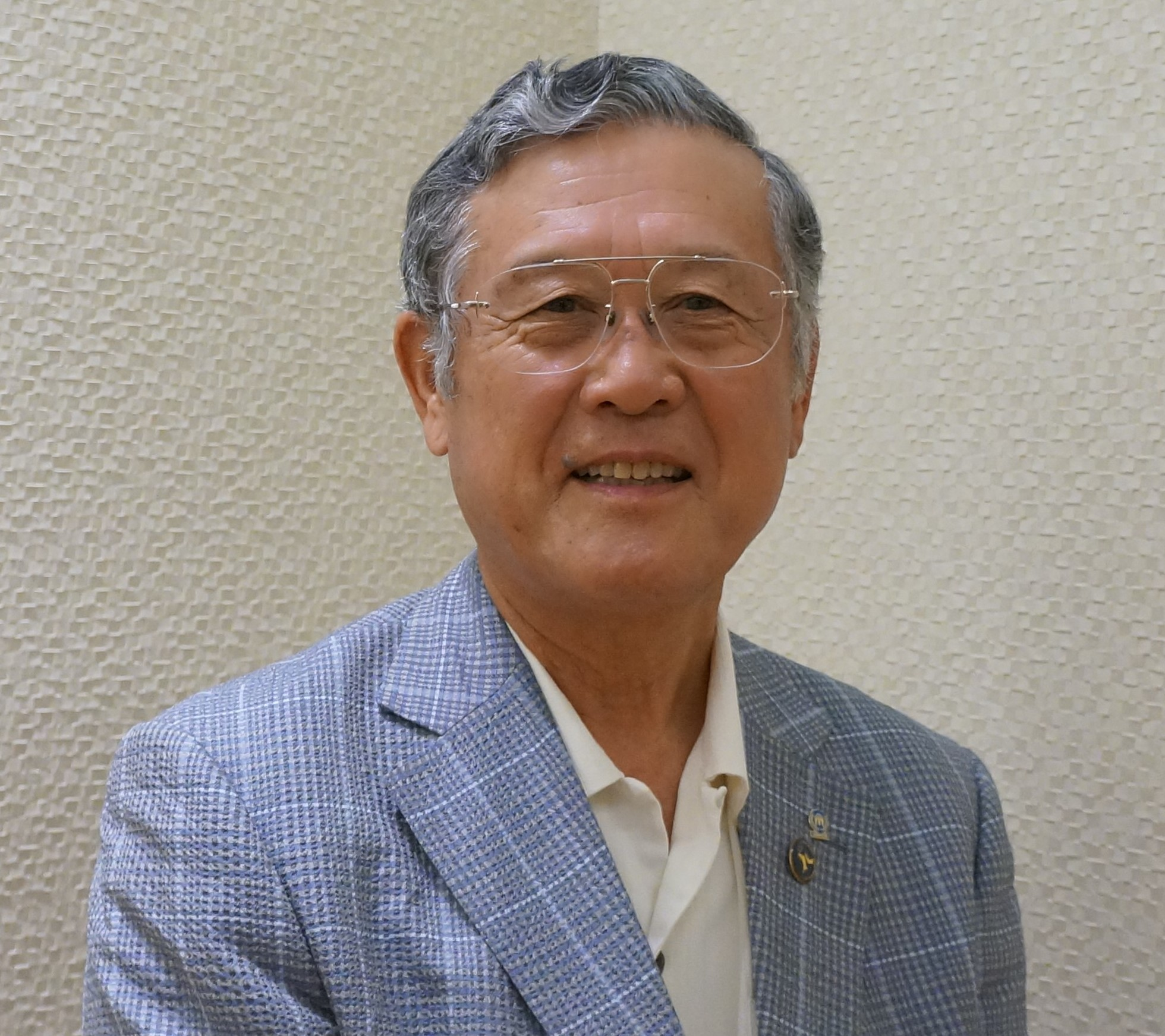 On July 20, 2018, at the Japan Information and Cultural Center, in Washington, DC, Masanori "Mashi Murakami. In 1964-1965, Murakami was the first ever Japanese baseball player to play in the US Major Leagues.